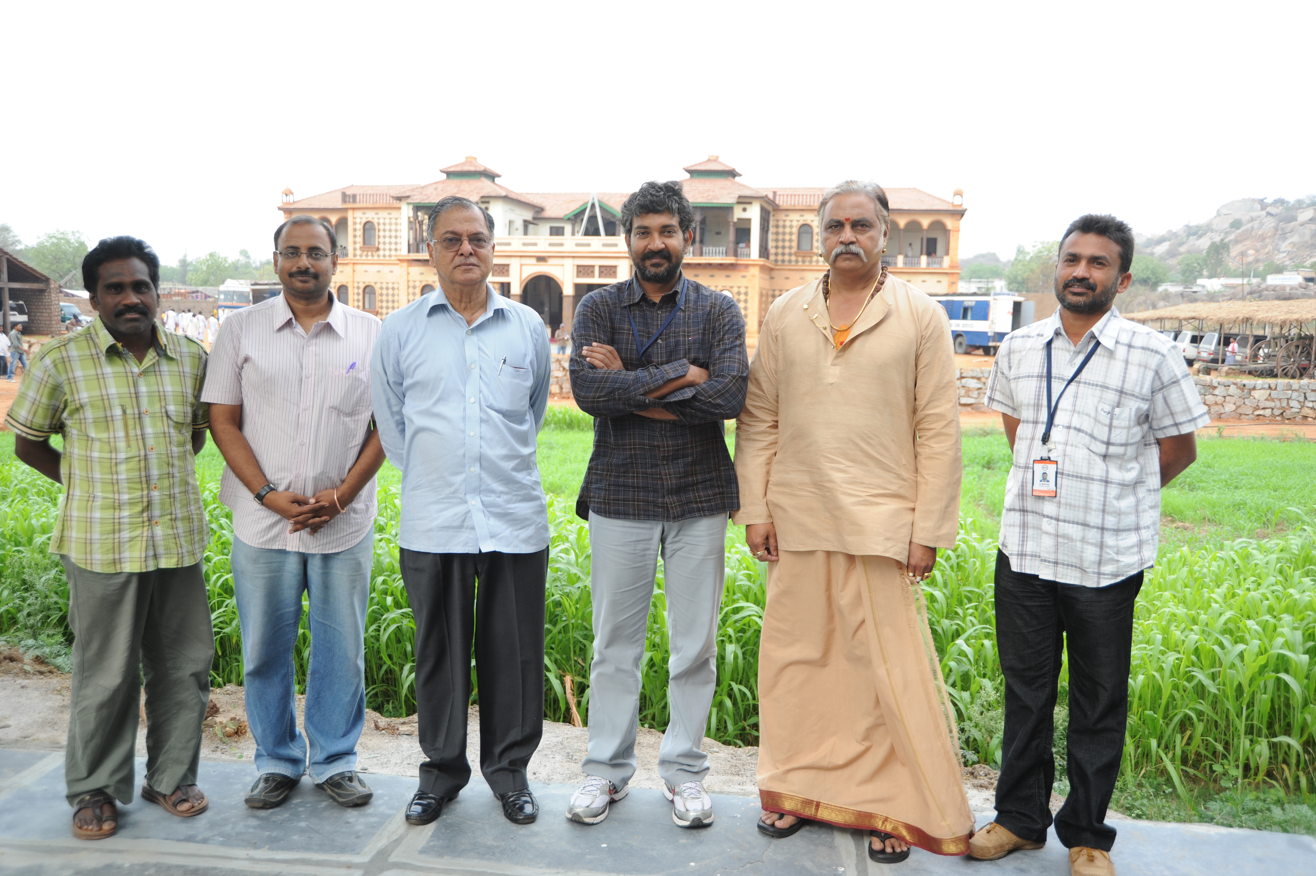 Shivasri Kanchi with Cousins